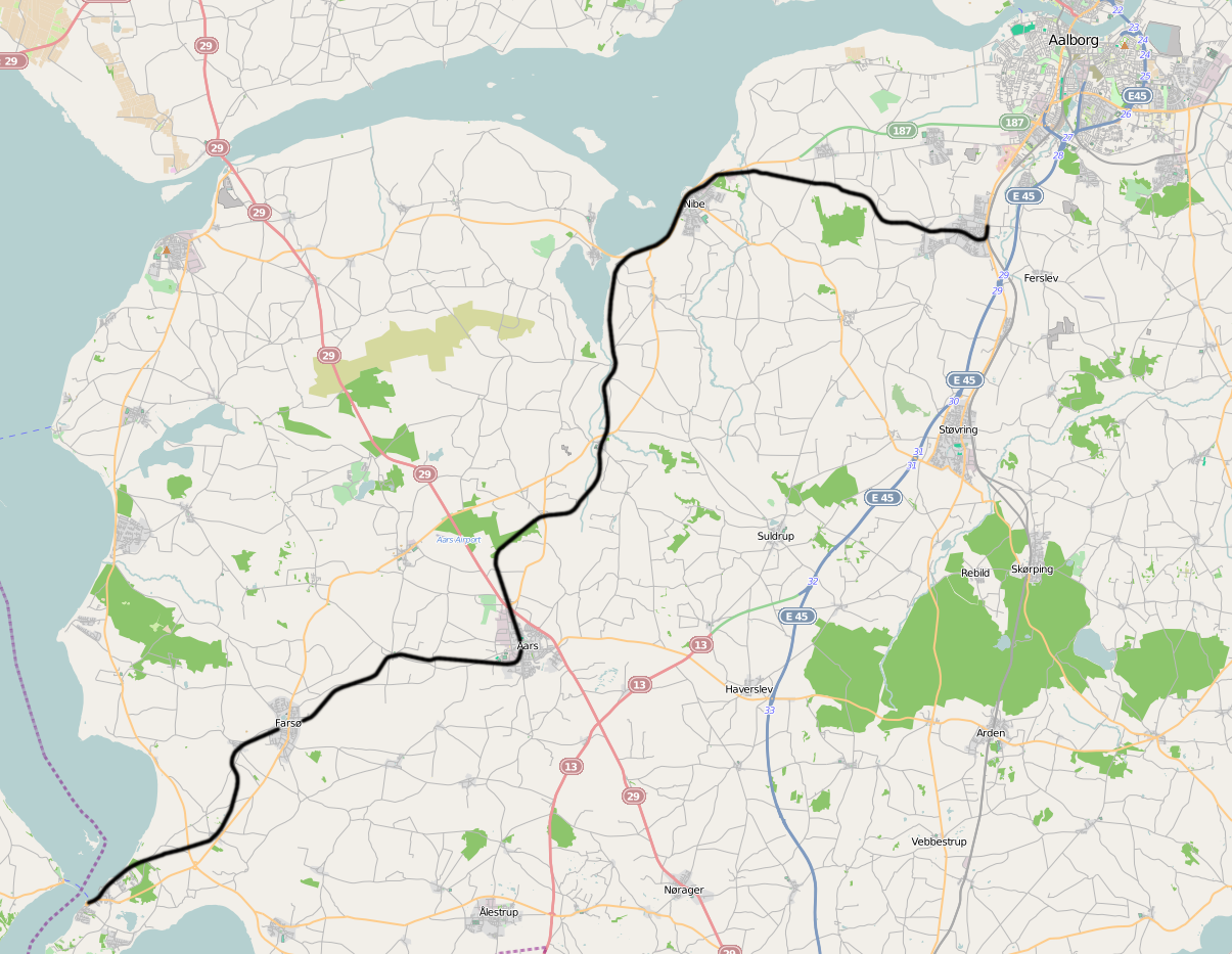 Railway line Svenstrup - Hvalpsund